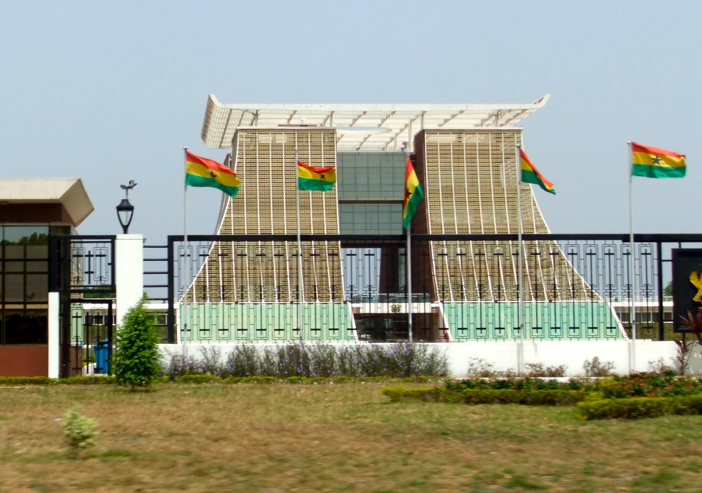 Golden Jubilee House (Presidential Palace of Ghana) and the official residence of the President of Ghana, in Accra, Ghana.